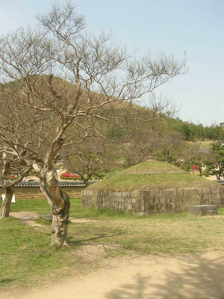 Shrine of the general Shin Sung-gyeom in northern Daegu, South Korea.